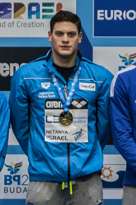 Swimmer Simone Sabbioni wearing the gold medal he won at the 2015 European Short Course Swimming Championships in Netanya